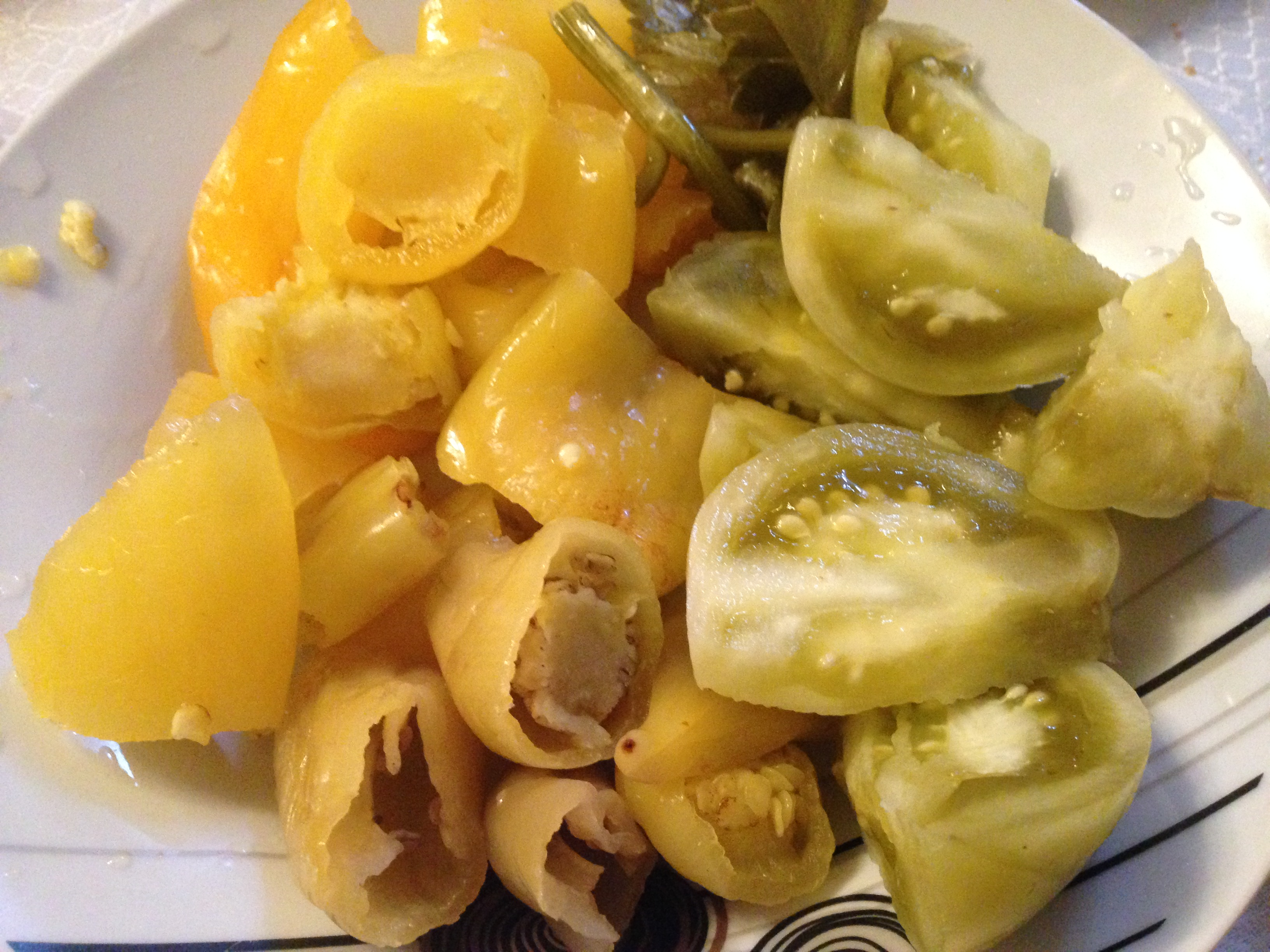 Chopped pepper and tomato